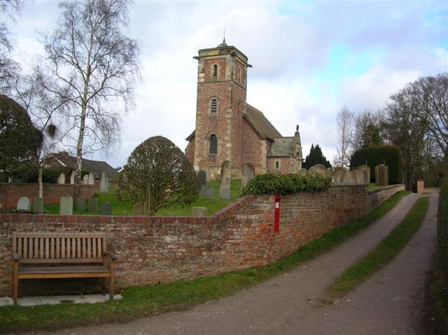 Holy Trinity parish church, Holtby, North Yorkshire, seen from the southwest